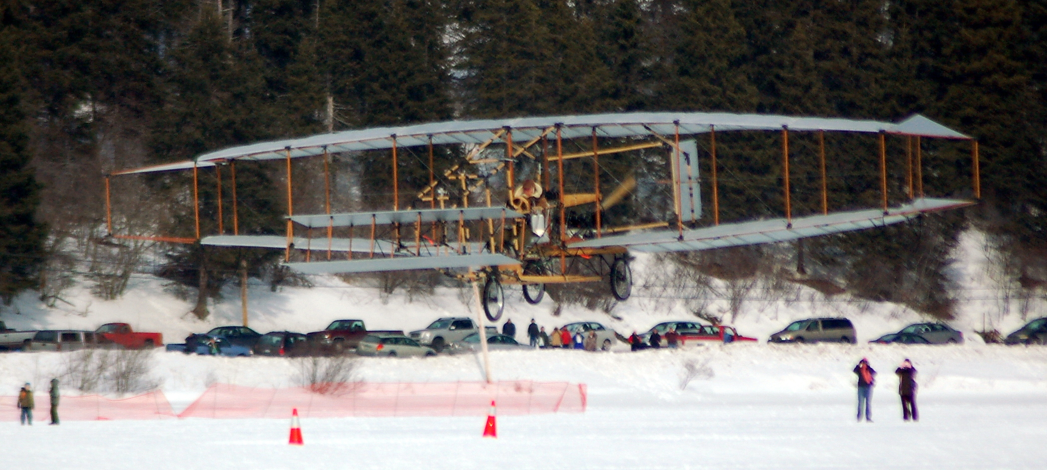 Replica built by the AEA 2005 headed by Douglas Jermyn and built entirely by volunteers.